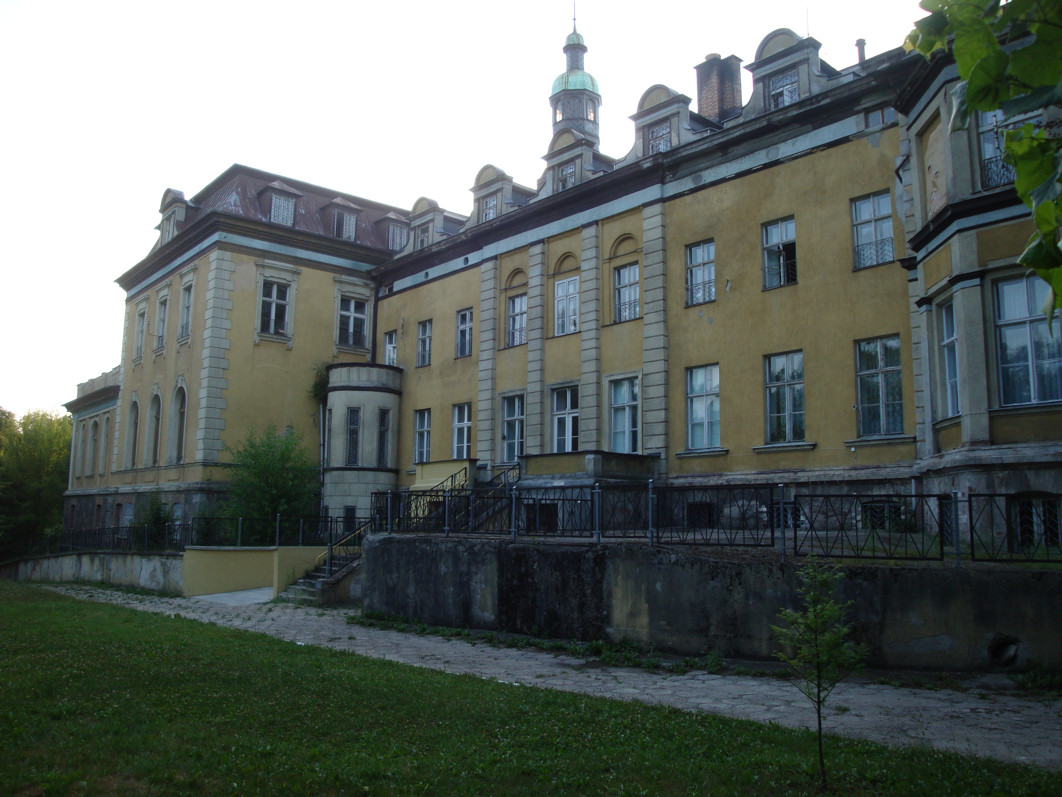 Damnica-village in Słupsk County, Poland. Palace, presently school